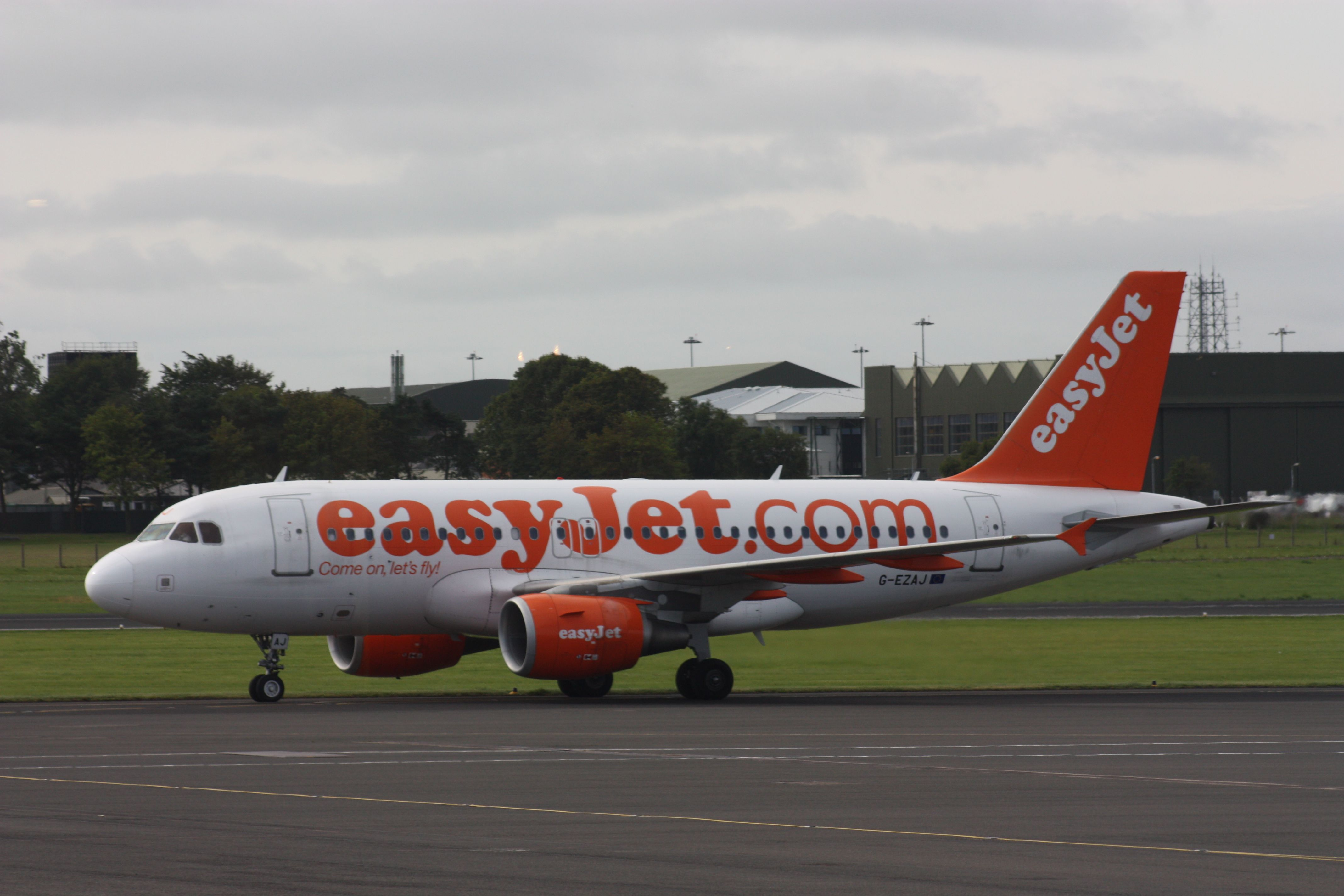 Easyjet (G-EZAJ) Airbus A319, Belfast International Airport, Aldergrove, County Antrim, Northern Ireland, July 2011